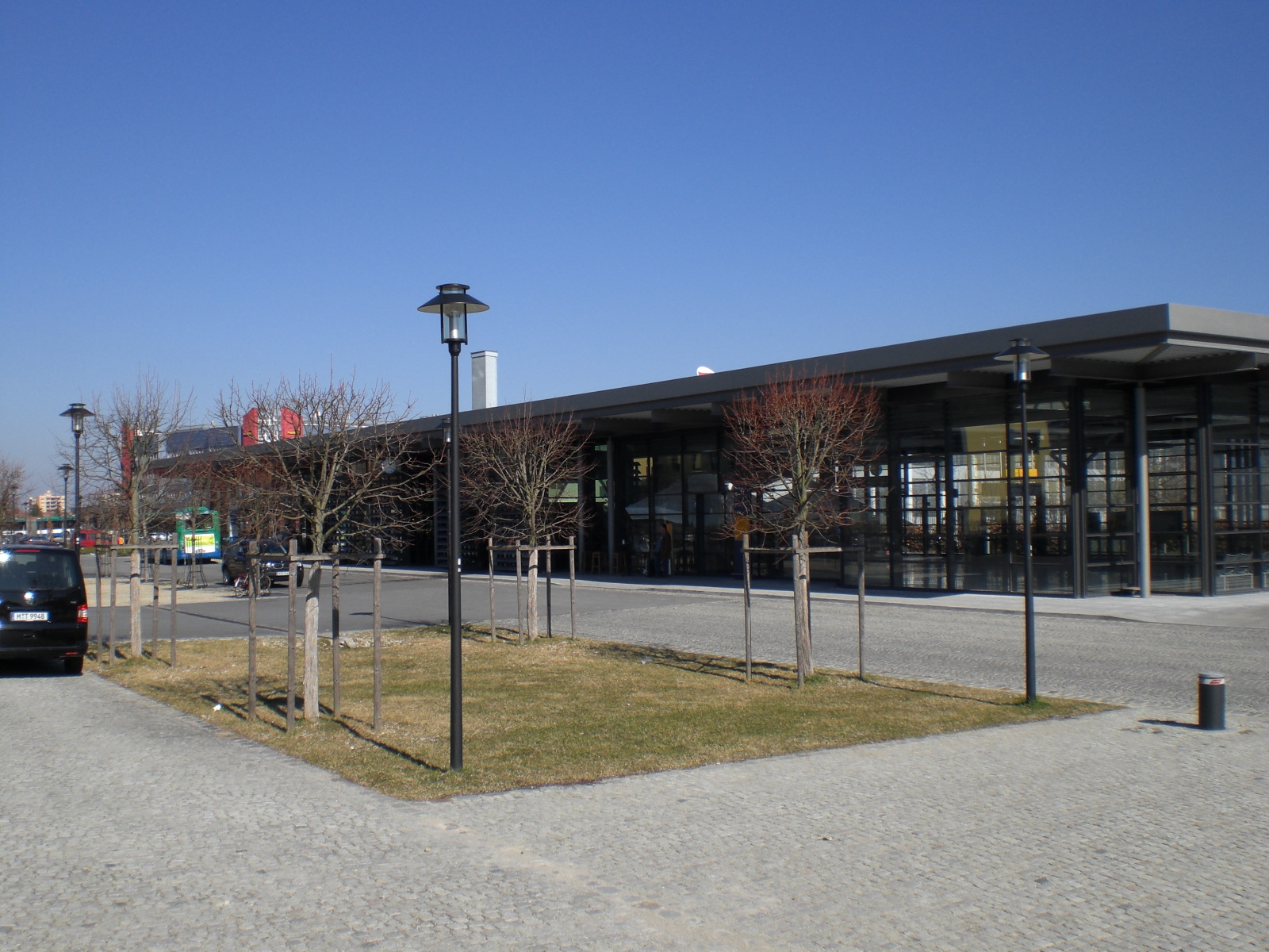 train station in Unterföhring near Munich, Germany. In the background BR und ZDF